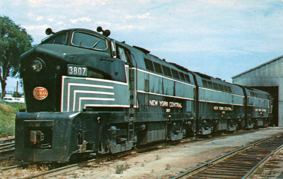 Photo postcard of a New York Central Railroad Baldwin "sharknose" locomotive.